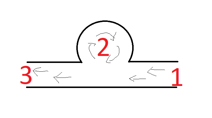 Vortex formation inside aneurysm 1. Blood flow inlet 2. Vortex that forms inside aneurysm. Velocity near center of vortex is zero 3. Blood flow exit